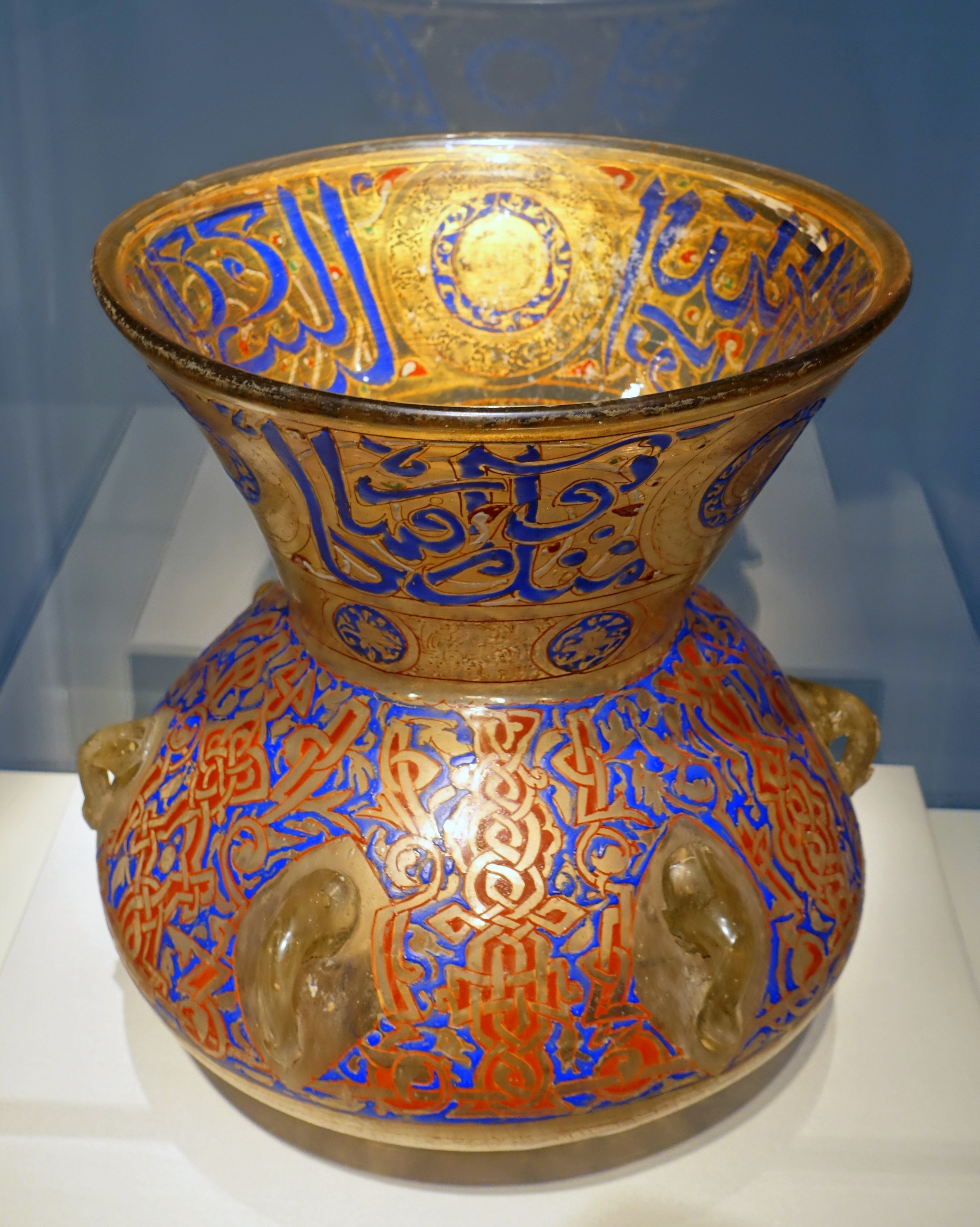 Exhibit in the Freer Gallery of Art, Washington, D.C., USA.